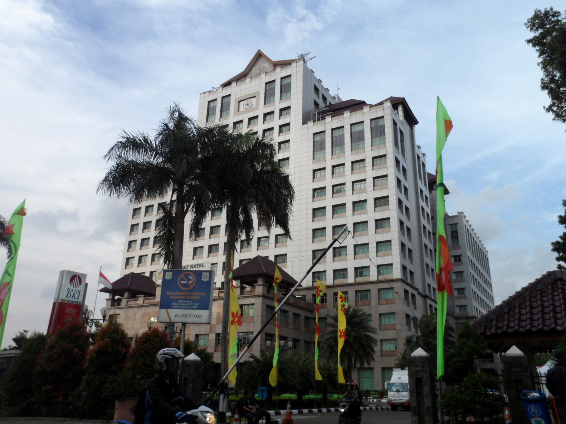 South Jakarta City Hall, Kebayoran Baru, Jakarta, Indonesia